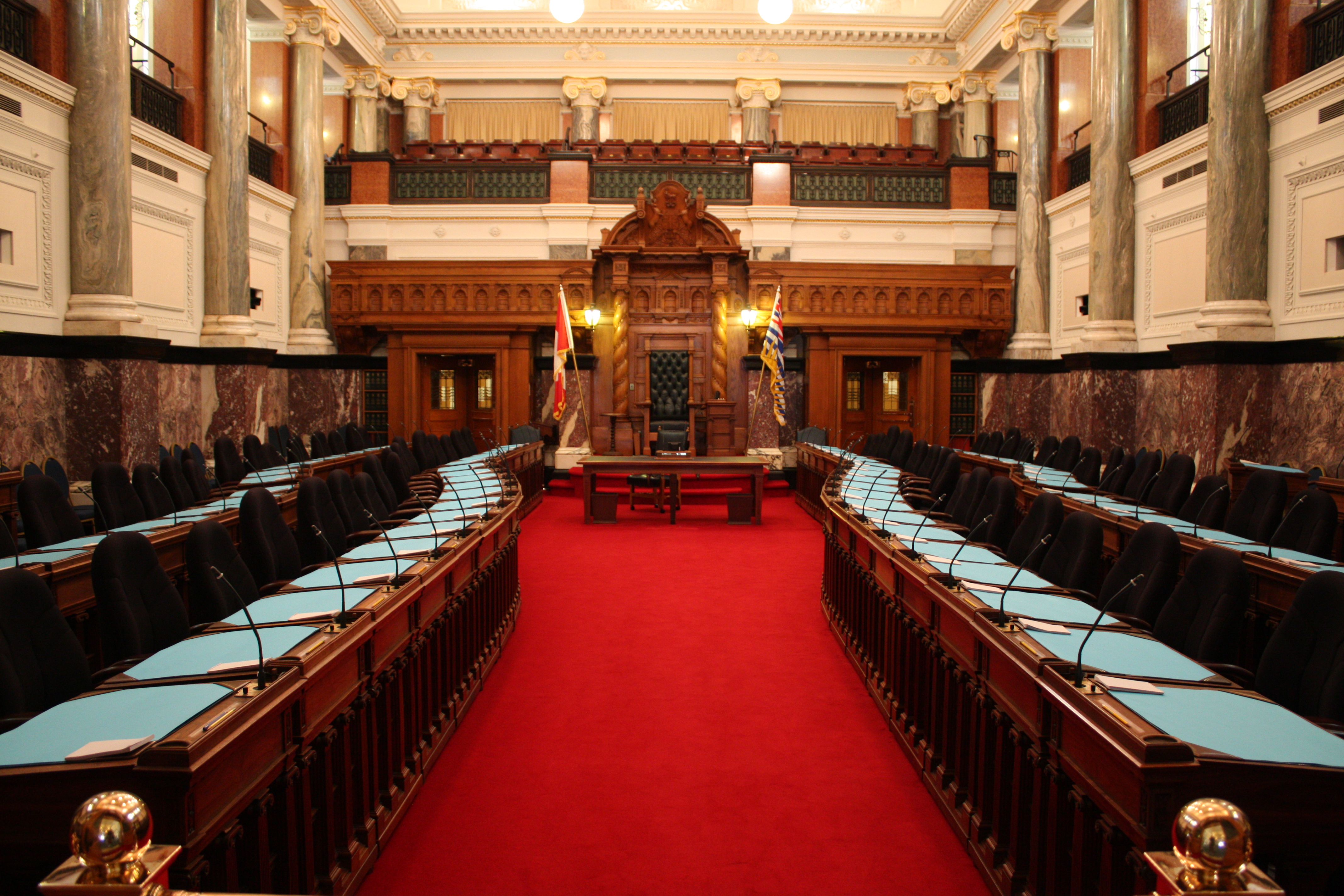 The chamber of the British Columbia provincial legislature in the Parliament Building of British Columbia in Victoria, B.C., Canada. Note the curved lines of seats since they've had to squeeze more seats into the chamber.